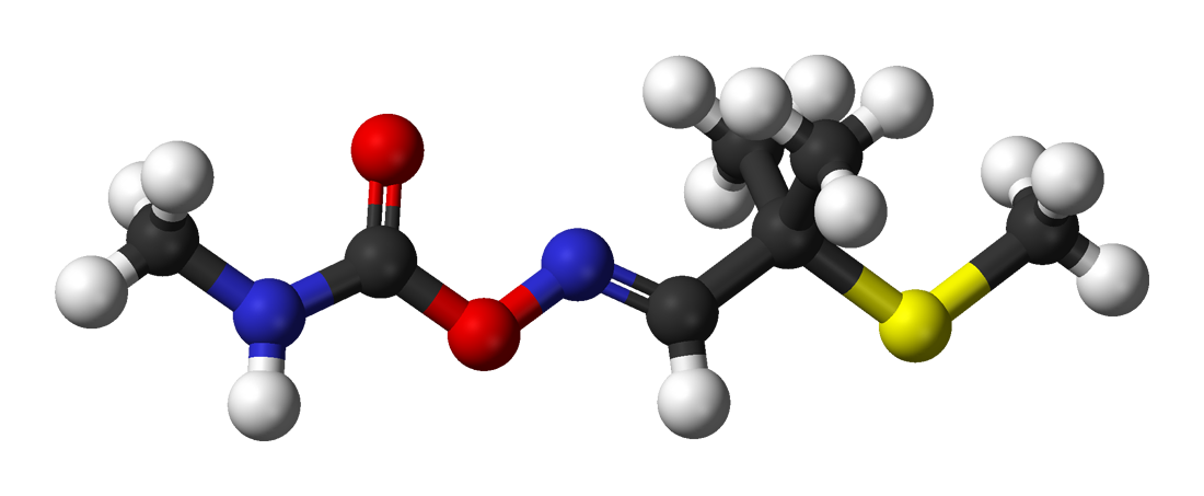 Ball-and-stick model of aldicarb